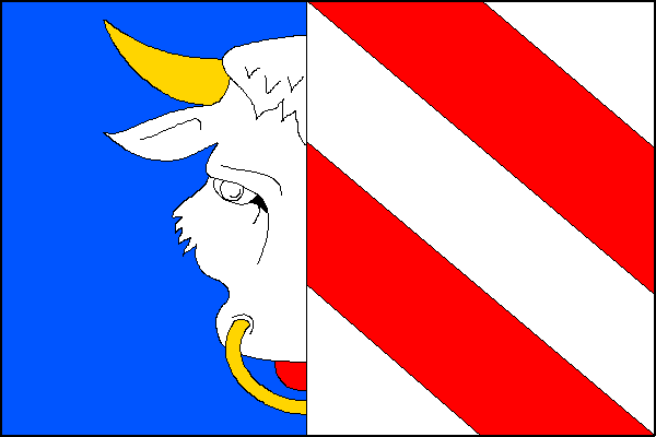 Municipal flag of Rymice village, Kroměříž District, Czech Republic.